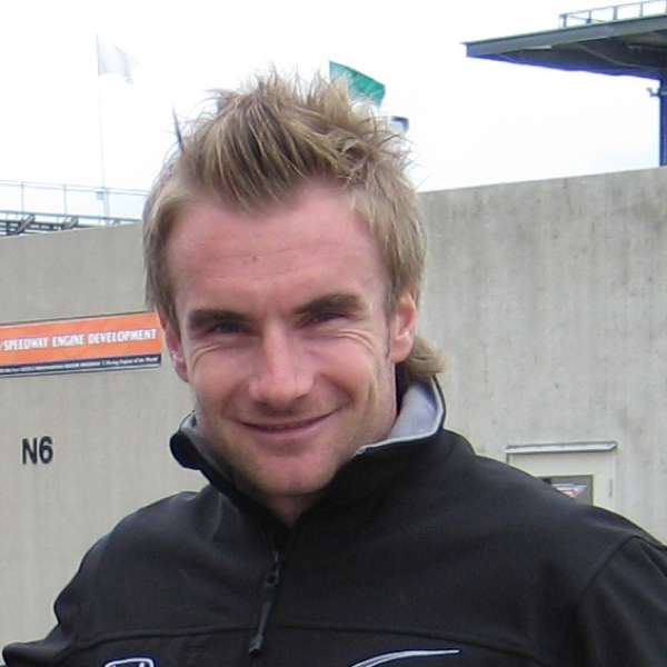 Jay Howard at the Indianapolis Motor Speedway for the second day of qualifications for the 2008 Indianapolis 500.